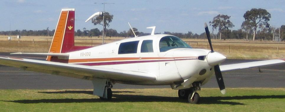 An M20J in Australia Self taken at rottnest island Western Australia